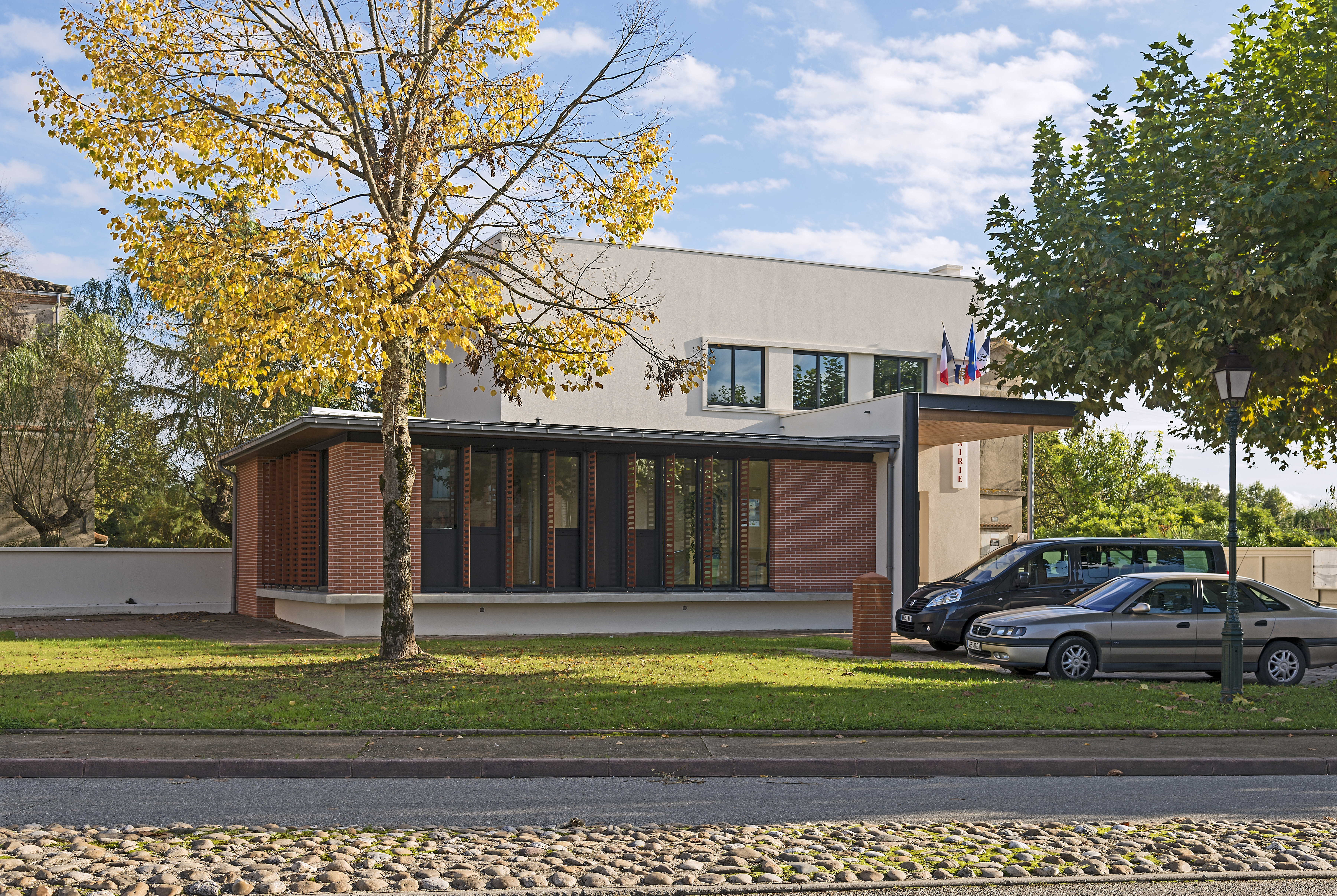 Town hall of Bondigoux, Haute-Garonne, France.